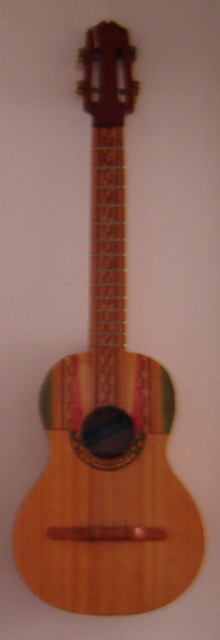 I'm the author of this photo, and i'm the owner of this cuatro. Caracas 2000